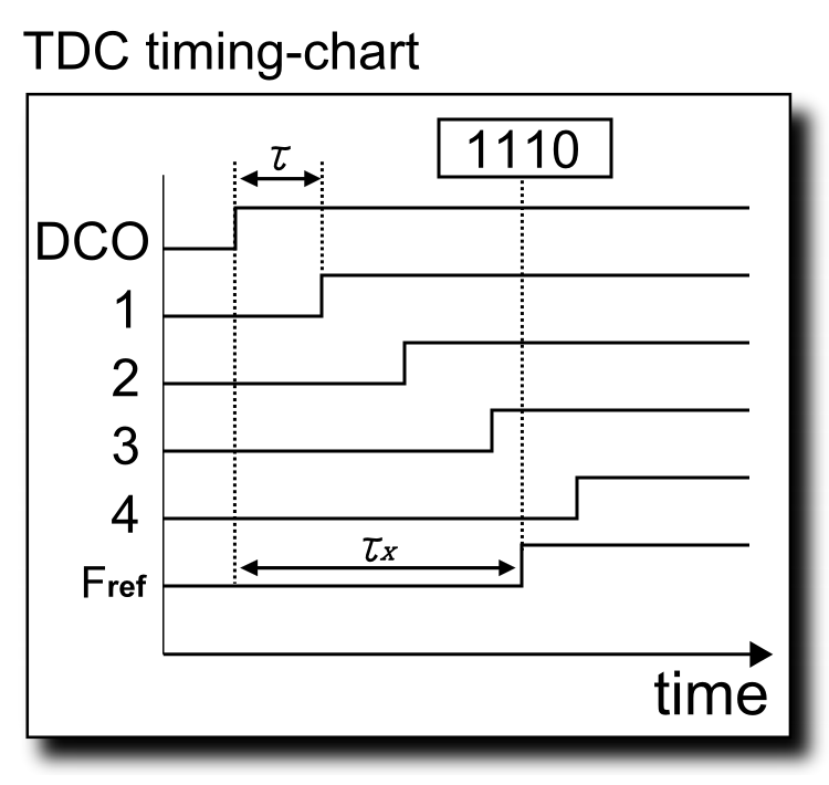 All Digital PLL TDC timing-chart